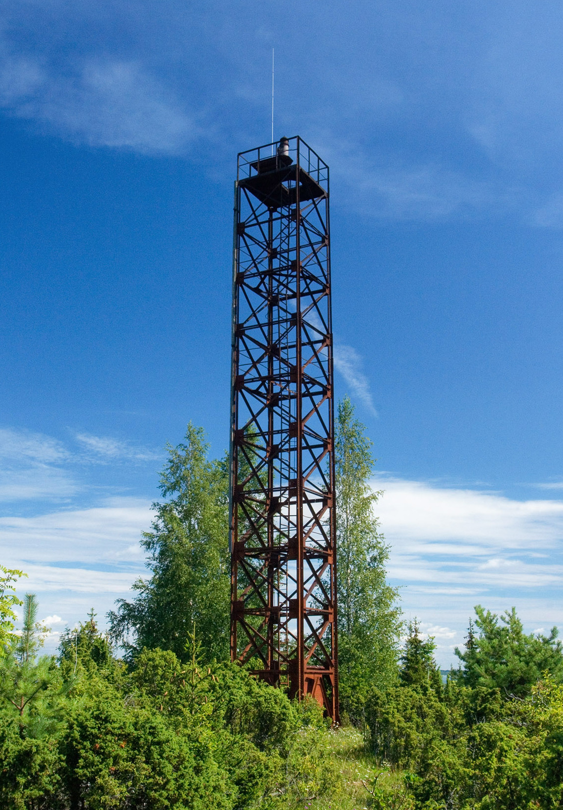 Kessu daymark